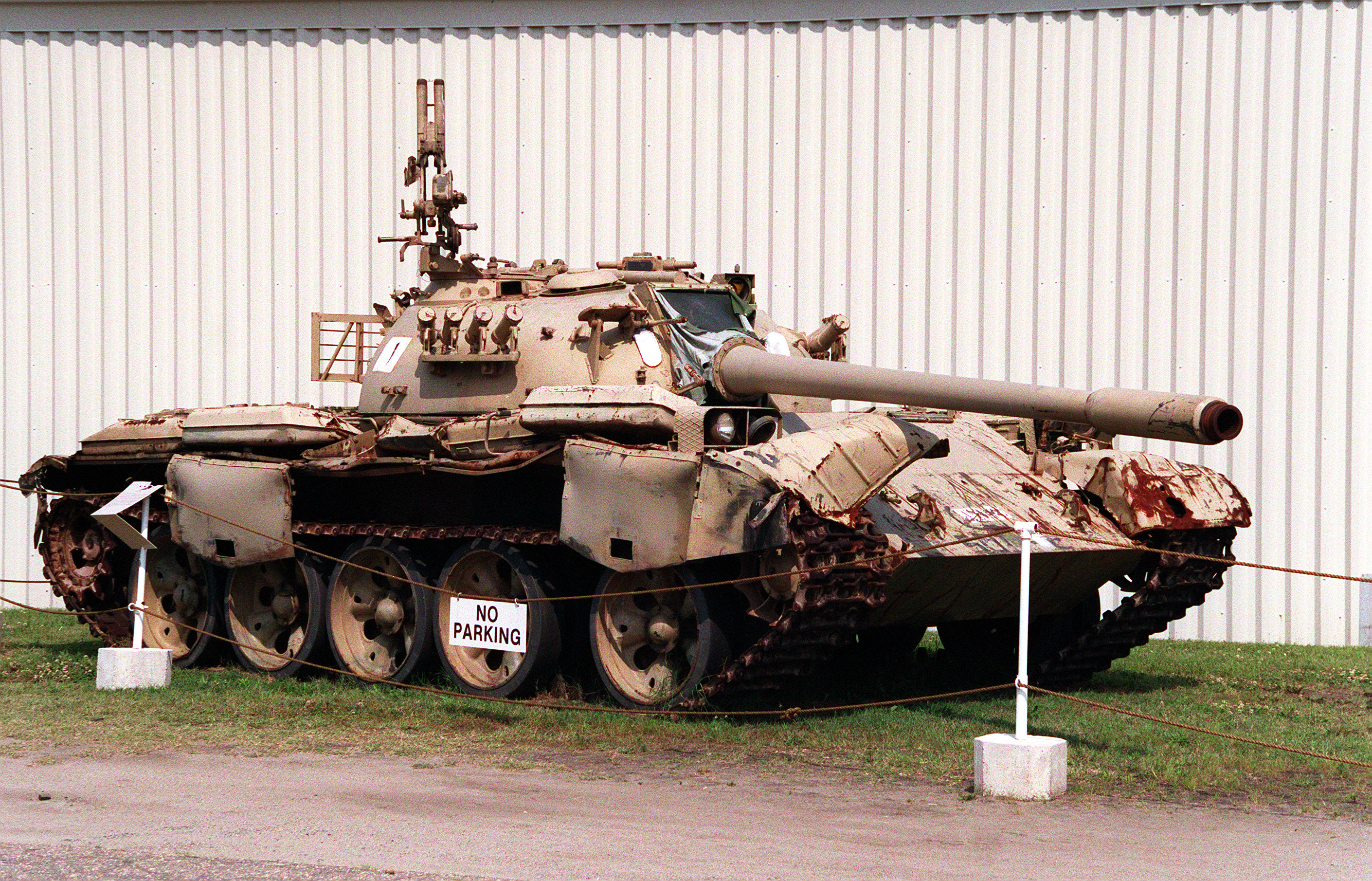 A Chinese-built Type 69 main battle tank, captured from Iraqi forces during Operation Desert Storm stands on display at the Marine Corps Air/Ground Museum.